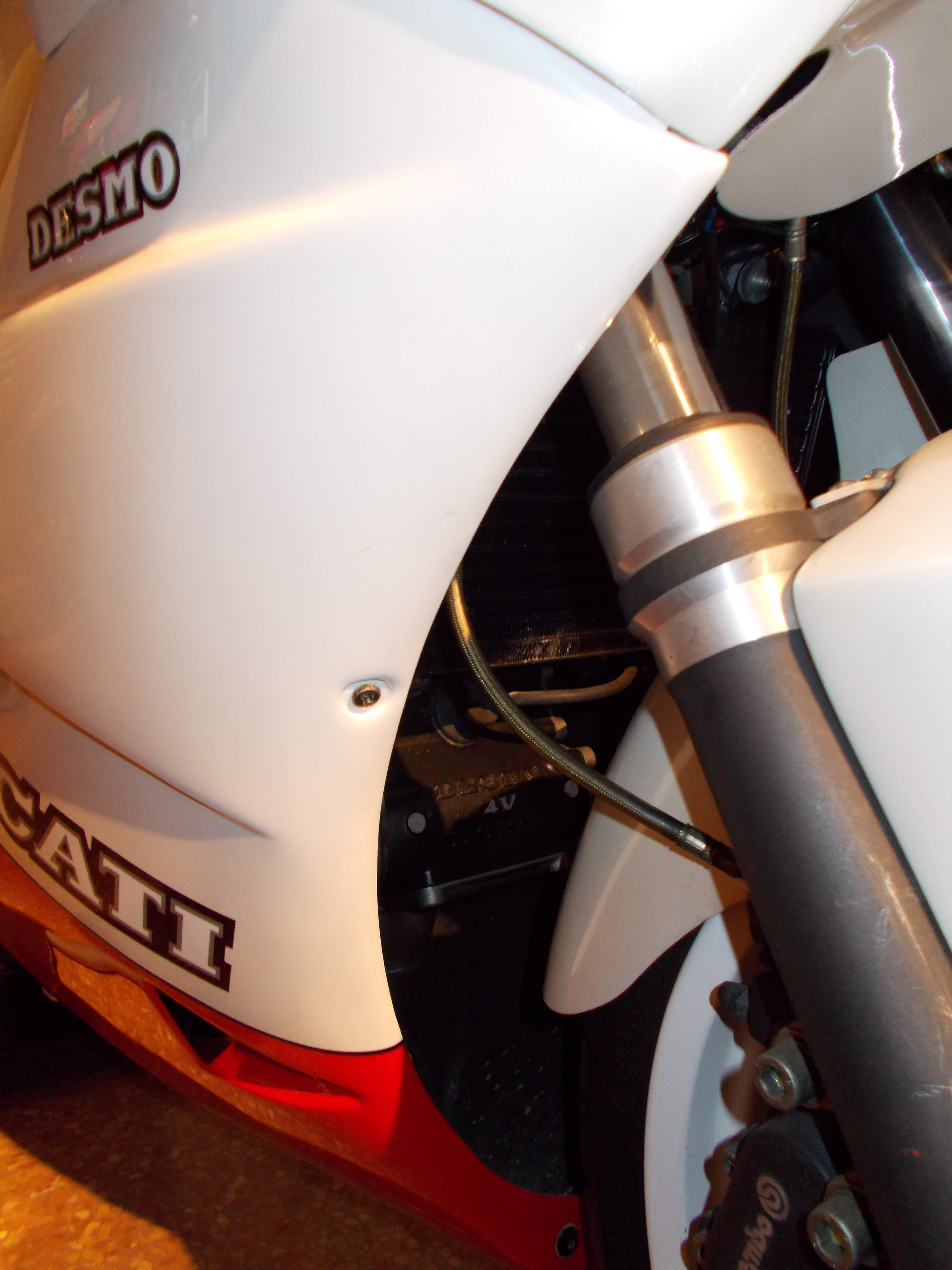 Front Cylinder head with "DESMO 4V DOHC" marking visible through the fairing of a 1988 Ducati 851 equipped with Superbike kit, also known as Ducati 851 Tricolore (for its livery inspired by Italian Flag), on display at "Desmo Story" exposition in Budrio (near Bologna), Italy La testata del cilindro anteriore con la scritta "DESMO 4V DOHC" visibile attraverso la carenatura di una Ducati 851 del 1988 con "kit Superbike", meglio nota col nome di Ducati 851 Tricolore (per la livrea ispirata alla bandiera italiana), esposta alla mostra "Desmo Story" a Budrio (Bologna).